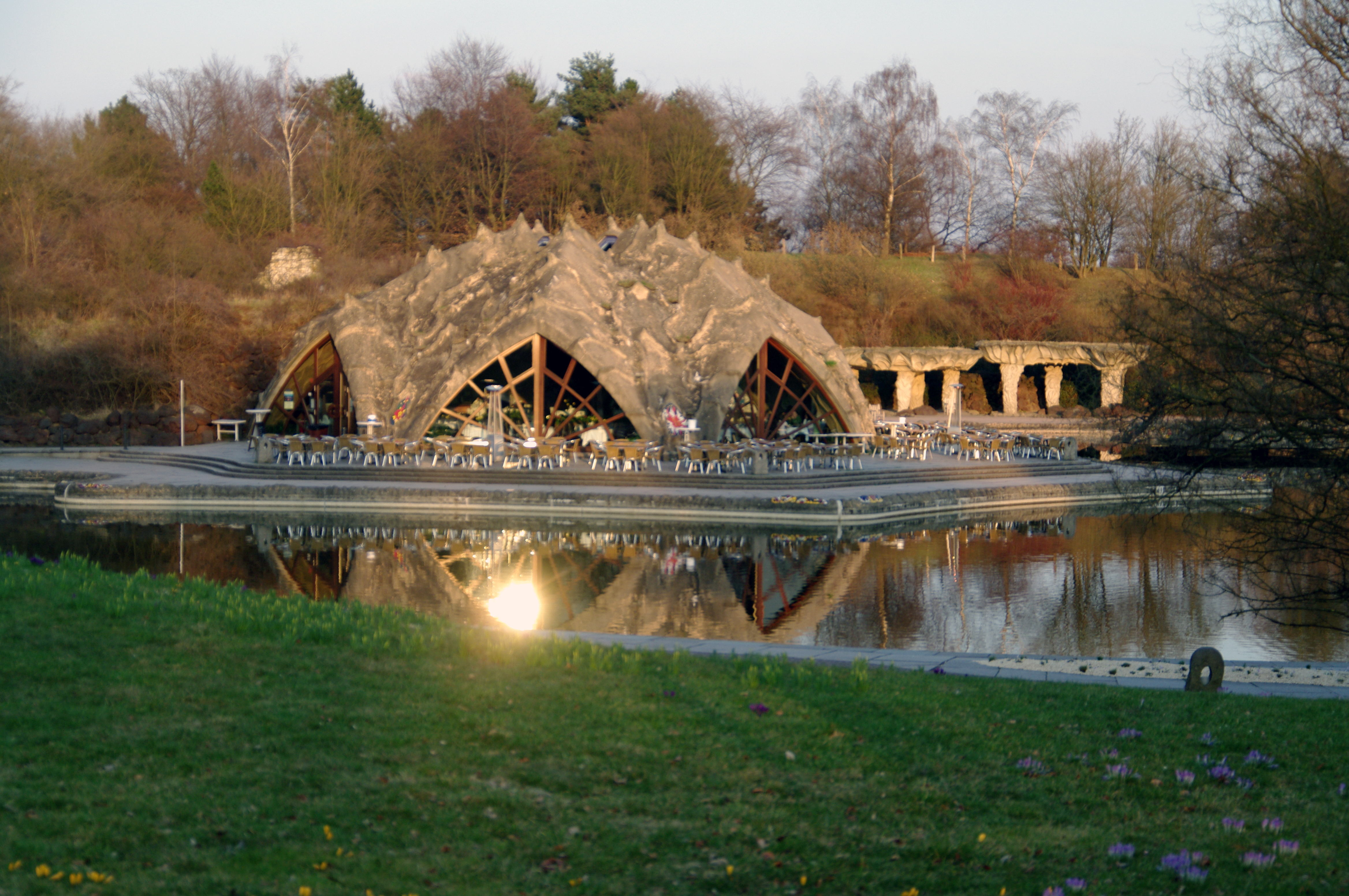 Main restaurant at the park "Britzer Garten" in Berlin-Britz.